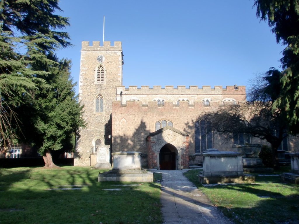 St Andrew's Parish Church, Enfield Town, near to Forty Hill, Enfield, Great Britain. Certainly for well over 800 years, possibly for nearly a thousand, Christian worship has continued on this site. The Church dates mainly from the 14th and 15th centuries. It contains a superb 18th century organ case and fine collection of monuments, particularly the brass to Lady Joyce Tiptoft (1446) and the memorial to Sir Nicholas Rainton of Forty Hall (1646). Link